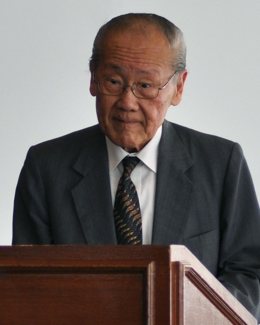 Wang Gungwu, CBE (simplified